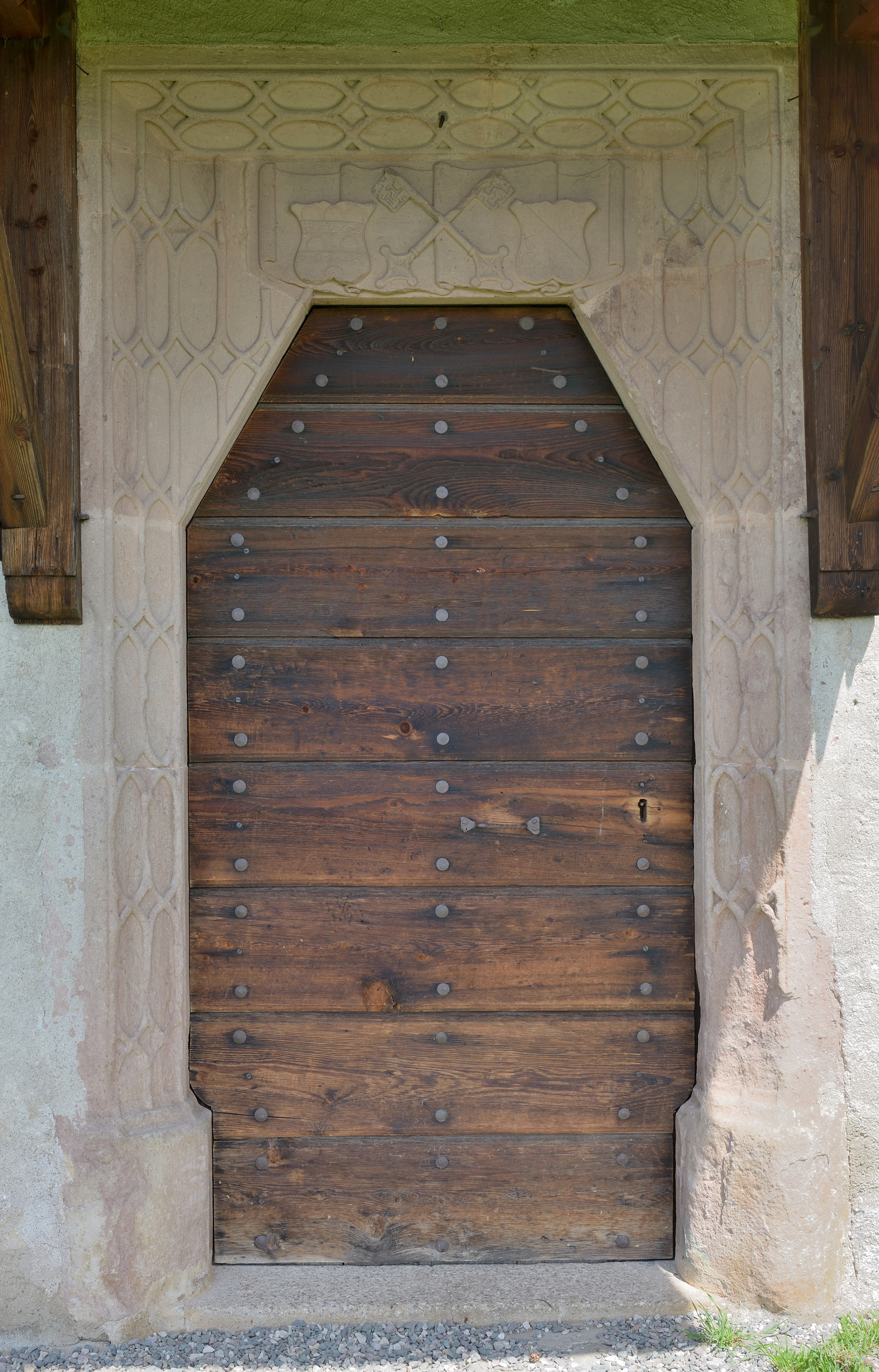 Late gothic doorway to the Sankt Peter am Bichl church in Völs am Schlern - On the arch the coat of arms of the family "Völs" and "Firmian".